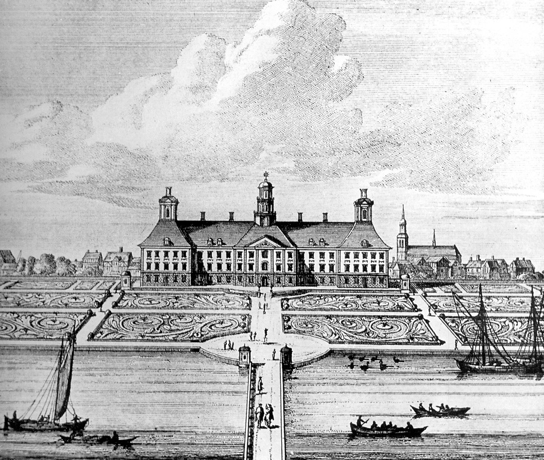 View from courtyard